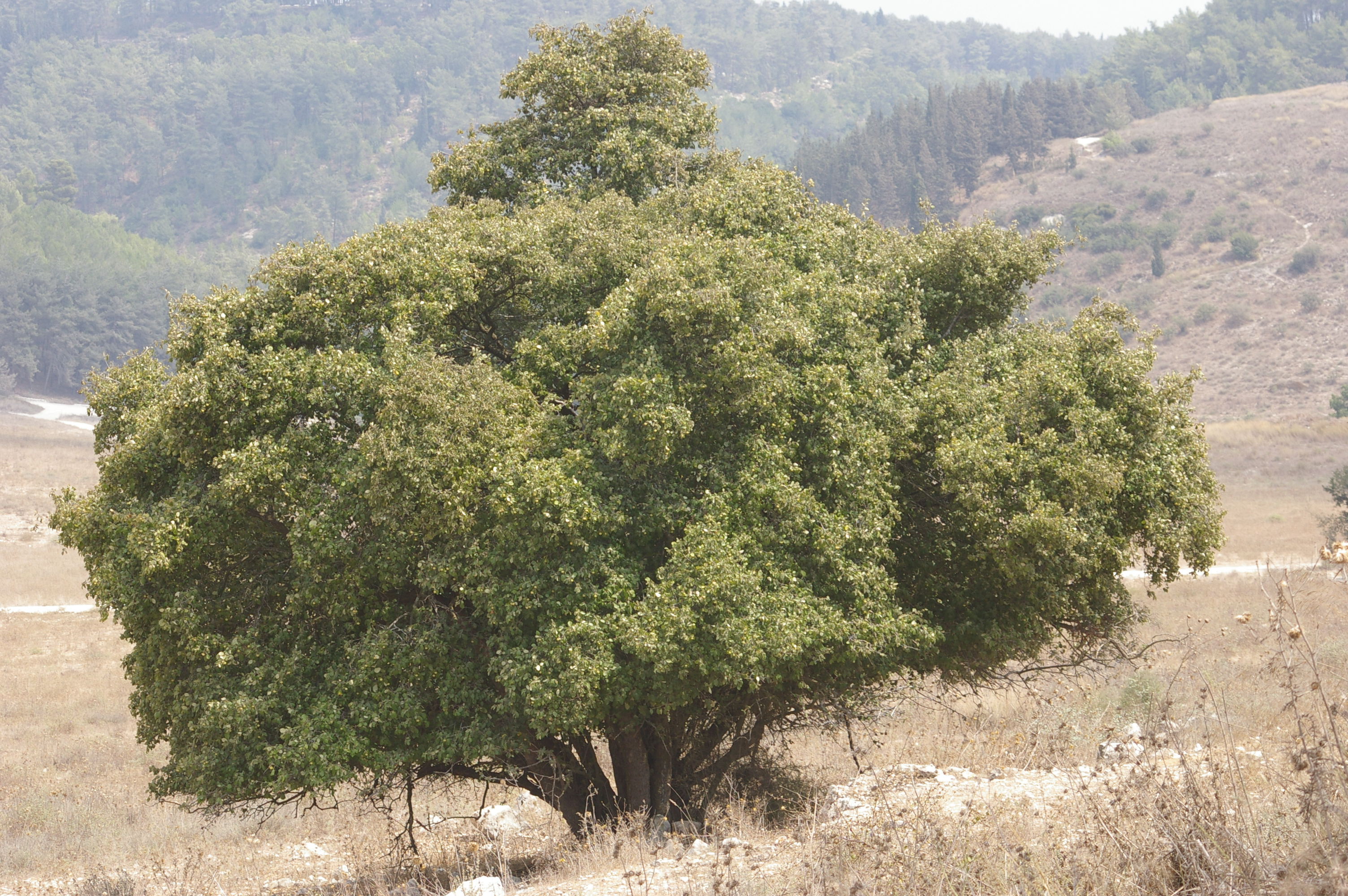 Styrax officinalis tree, Menashe hills.